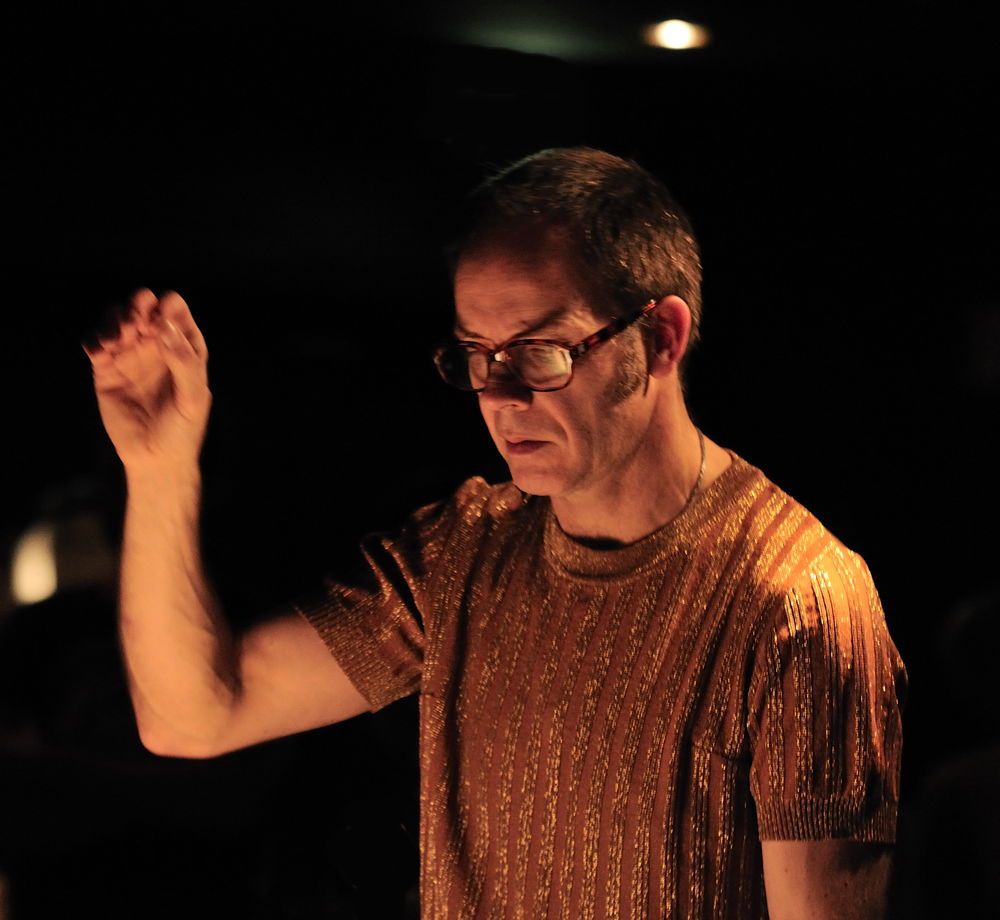 Jan Klare